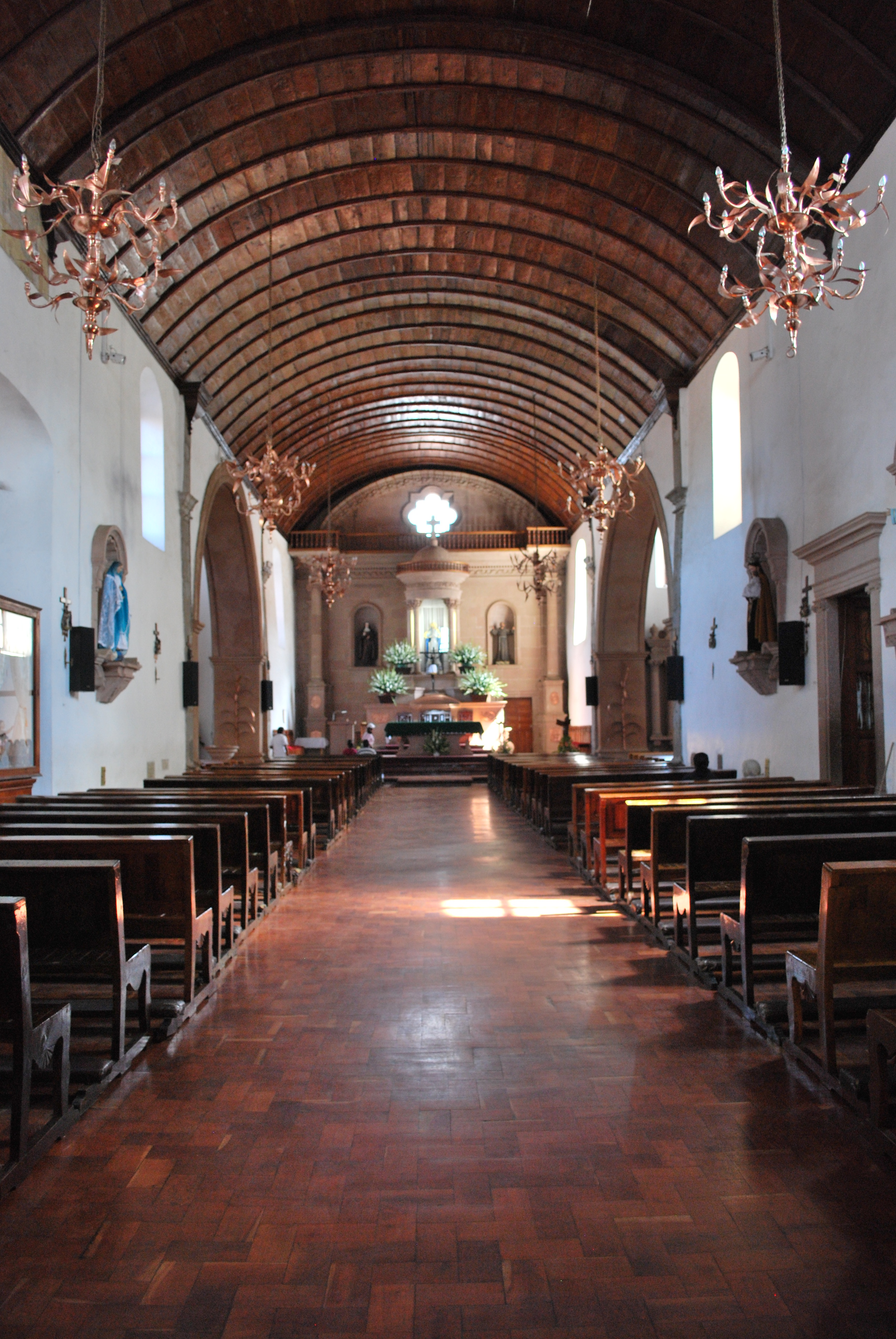 Nave of the Nuestra Señora del Sagrario Church in Santa Clara del Cobre, Michoacan